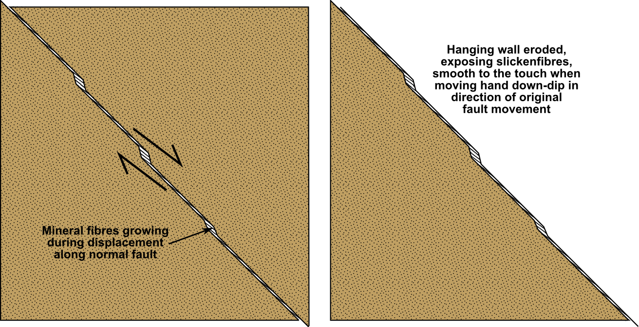 Diagram to explain formation of slickenfibres and how they can be used to determine fault movement direction - intended to replace File:Slicks.jpg on en Wikipedia